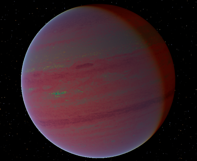 Artistic rendering of HD 13189 b